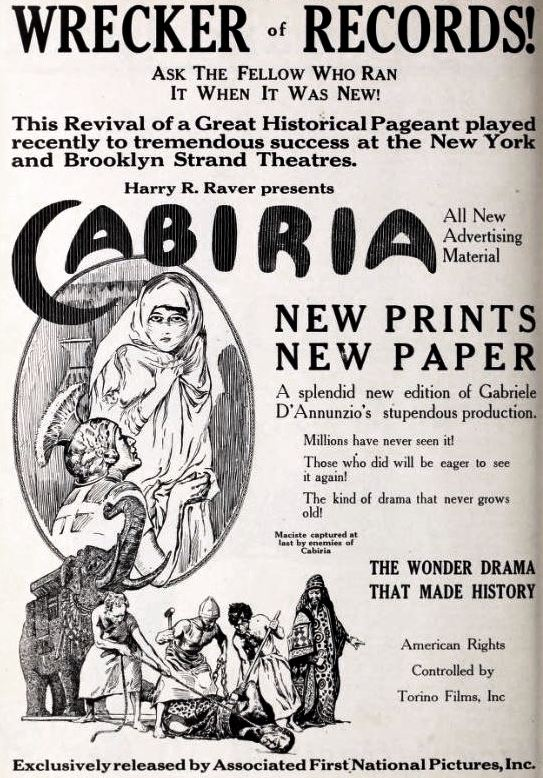 American advertisement for the Italian epic film Cabiria (1914), on page 30 of the January 14, 1922 Exhibitors Herald. Advertisement consists of a drawing and does not use any stills from the film.